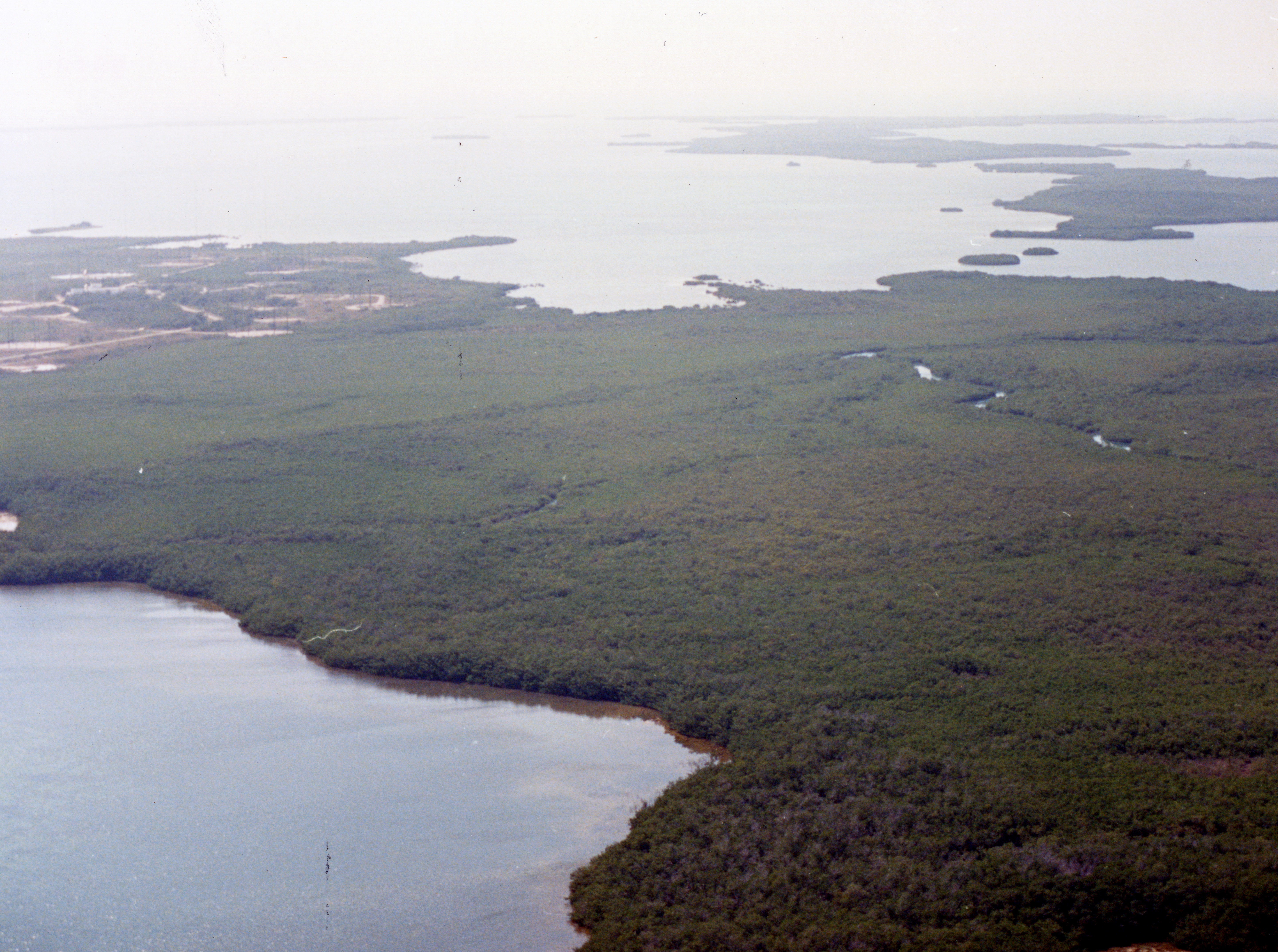 Saddlebunch Key from the northeast. Photo taken by the Federal Government on October 7, 1987. From the Wright Langley Collection.